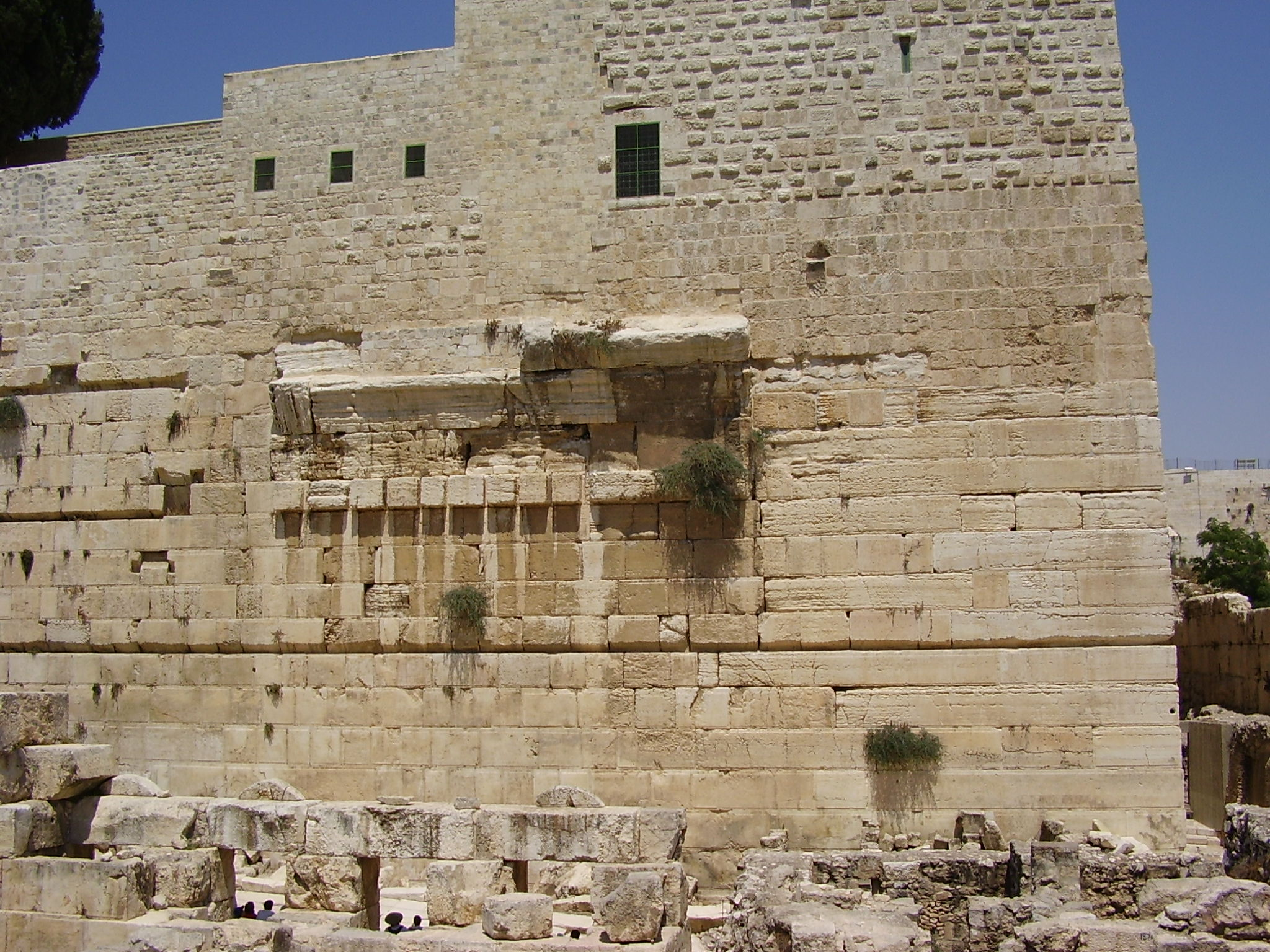 robinson\'s arch in old city wall, jerusalem